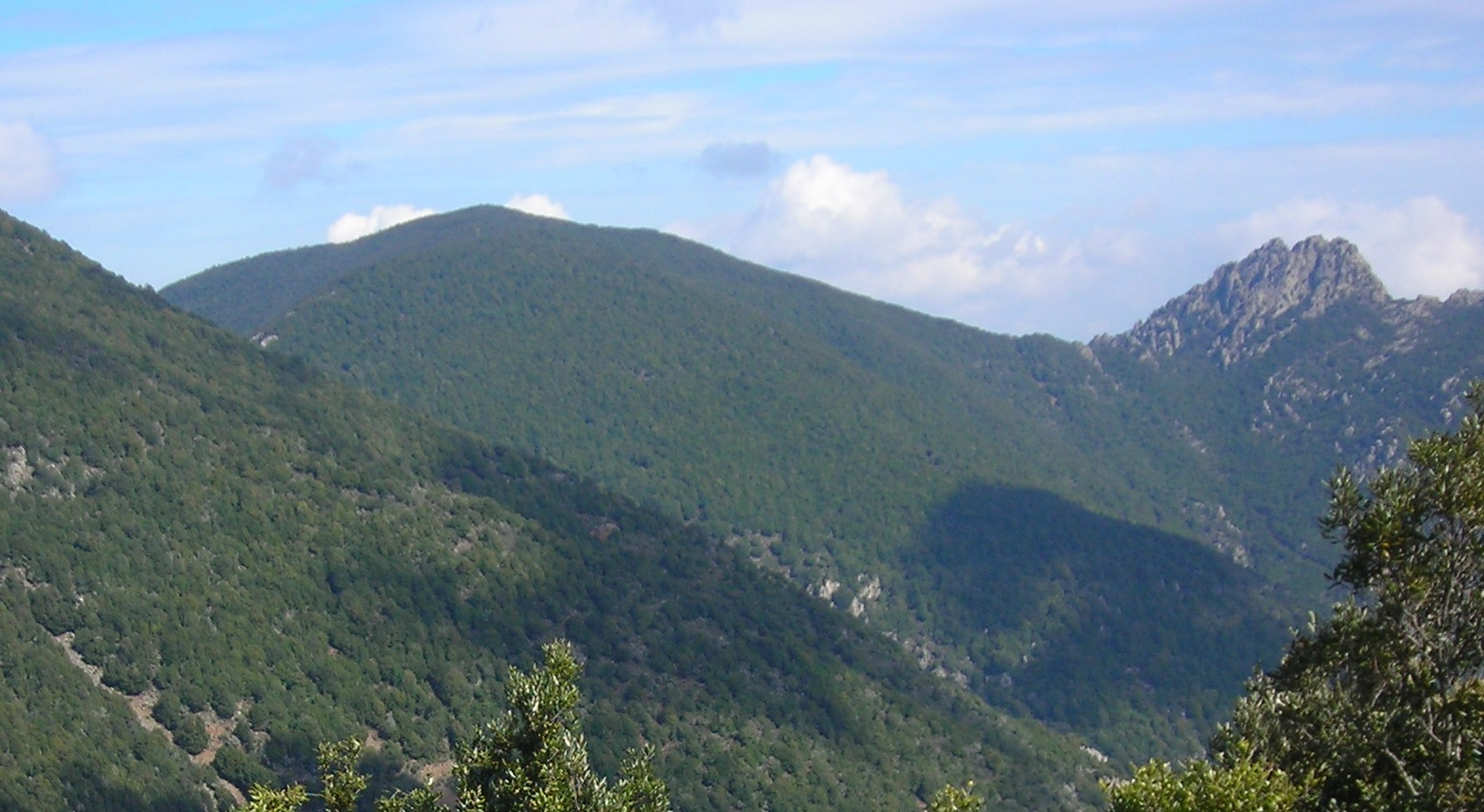 Mount Is Caravius (Sardinia, Italy). View from M. Sa Mirra